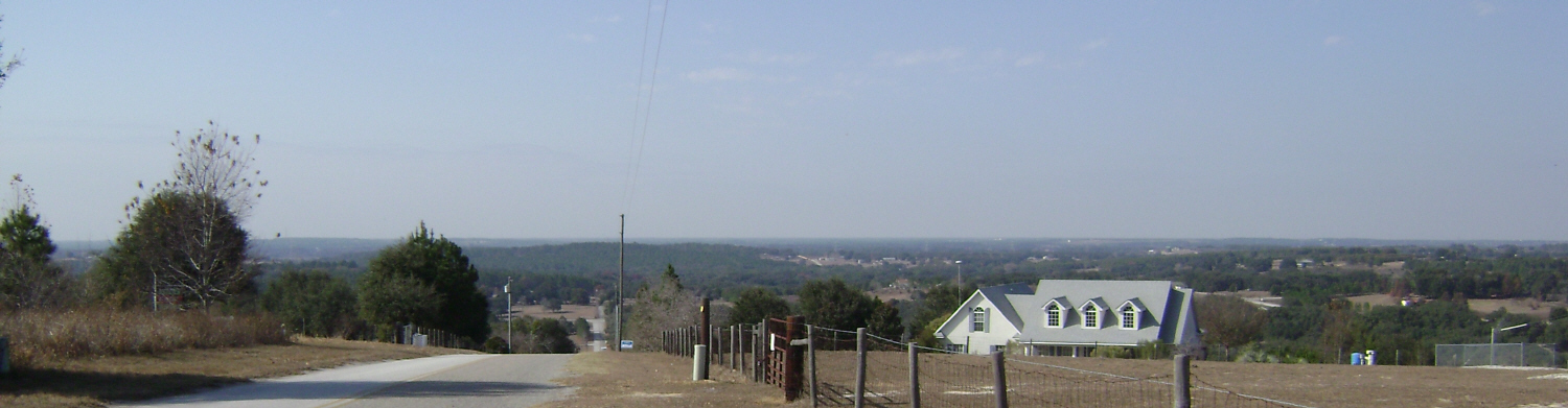 View from the summit of Sugarloaf Mountain in Lake County, Florida, facing west.